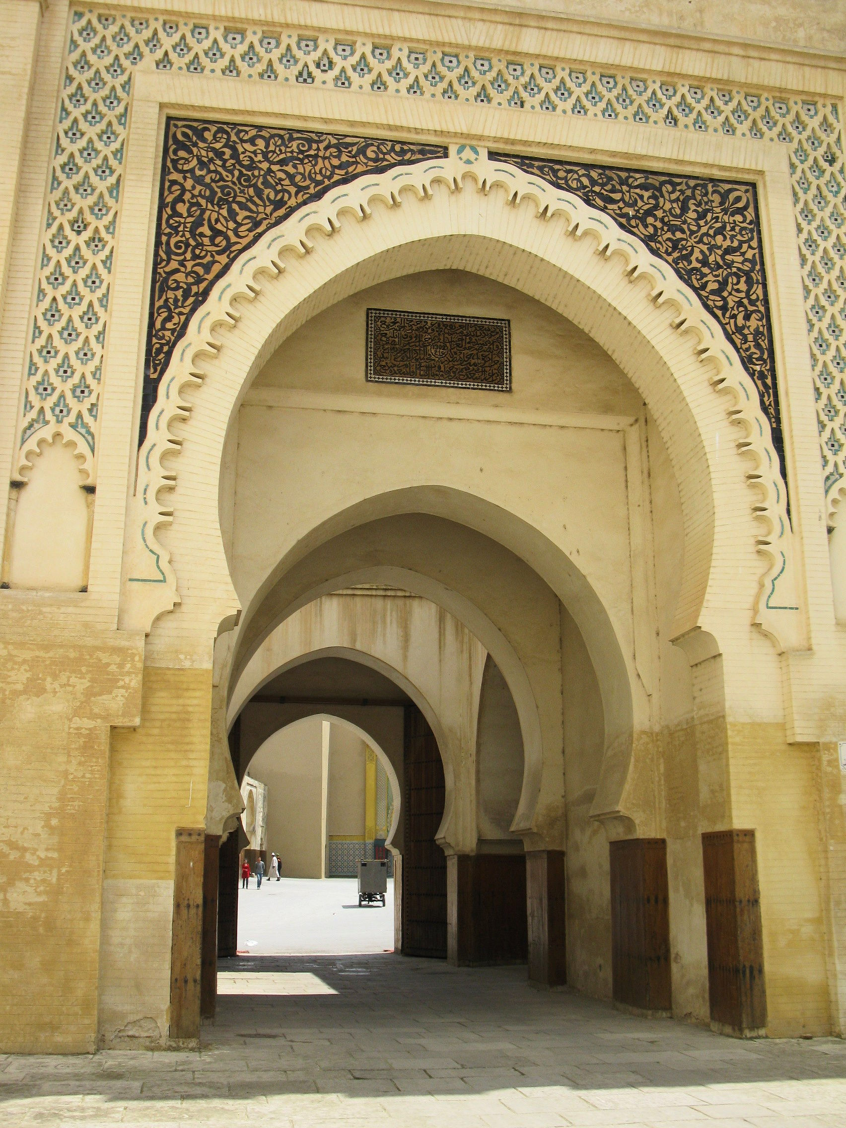 Outer facade of Bab Dekkakin, seen from the New Mechouar. Note: An inscription above the gate gives the date 1302 (AH), which seems to be a reference to the works carried out by Sultan Moulay Hassan in this area in 1886, when he built the adjoining Dar al-Makina. Presumably, Moulay Hassan also renovated the gate at this time too.